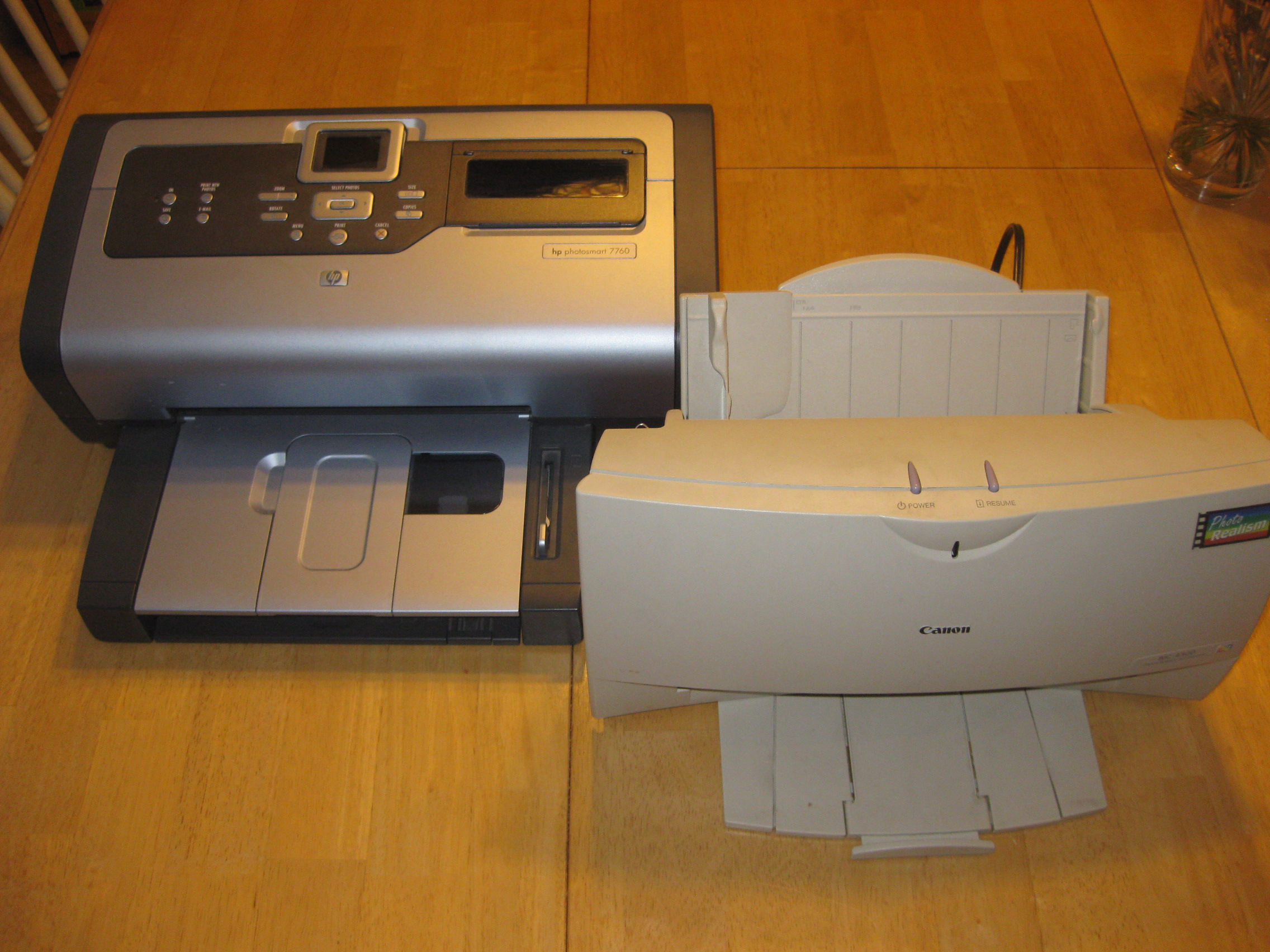 Two inkjet printers from approximately year 2000 (Canon) and year 2006 (Hewlett-Packard photosmart 7760).